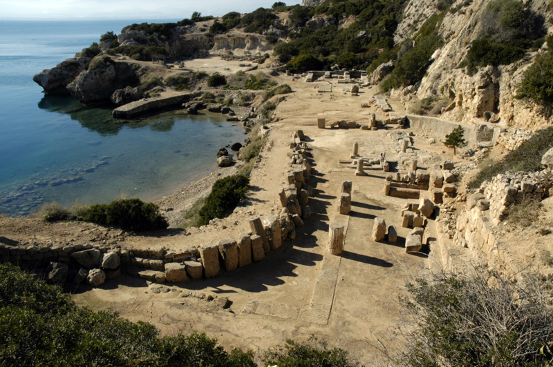 Heraion of Perachora; by J. Matthew Harrington, personal digital image, November 16, 2006